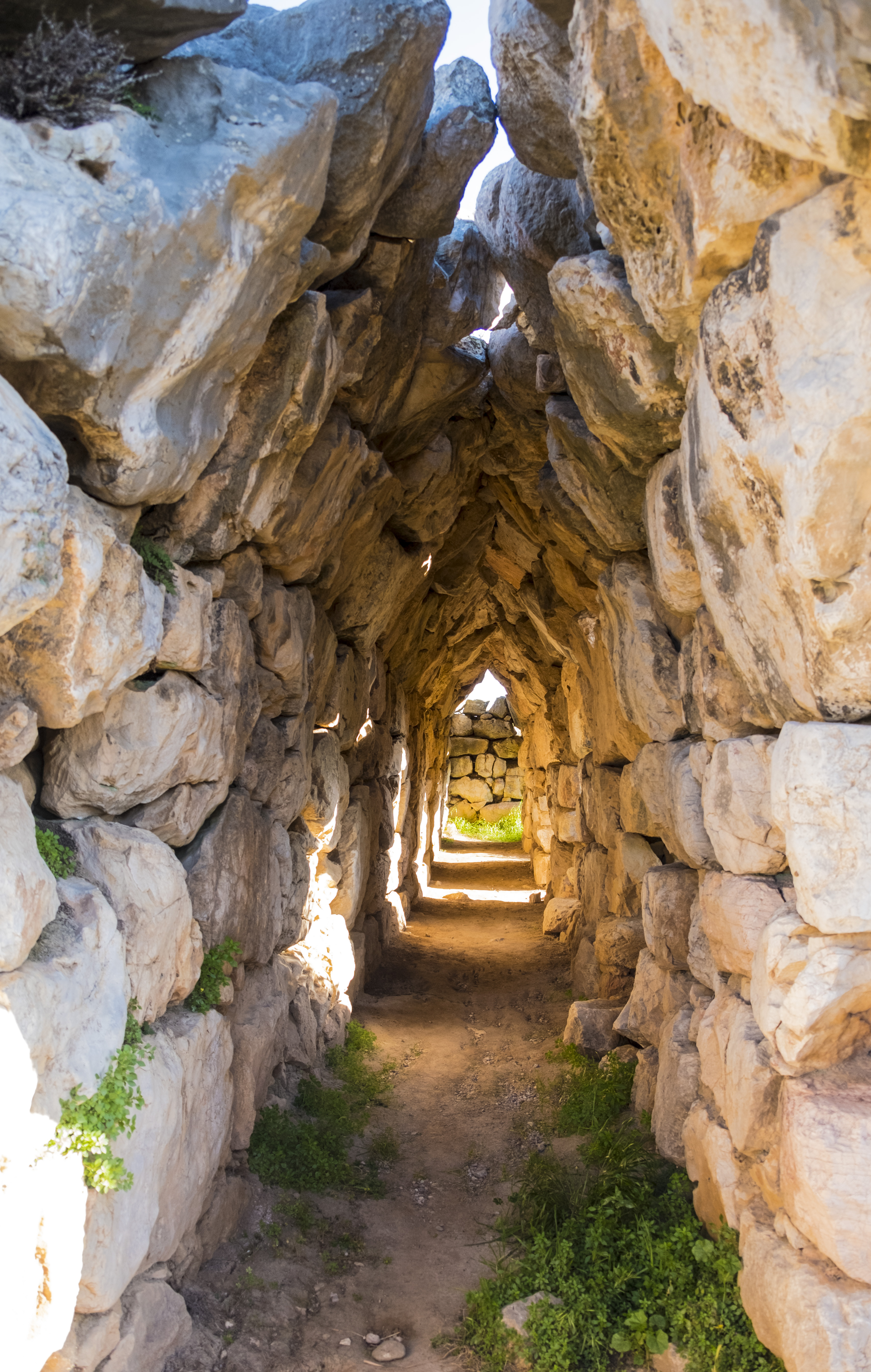 Gallery in Tiryns